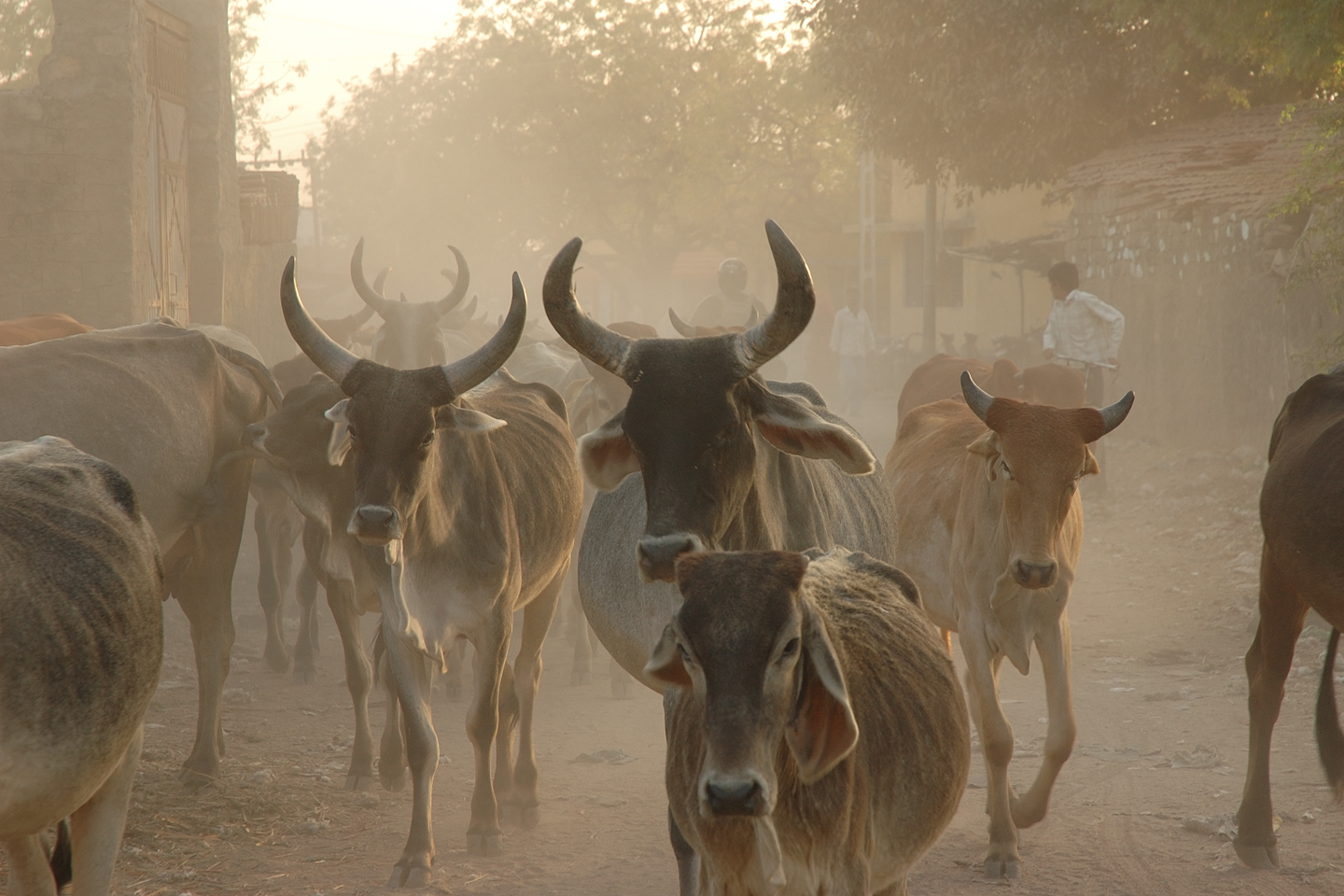 Cattle in Tikar, Gujarat, a village on the edge of the Rann of Kutch